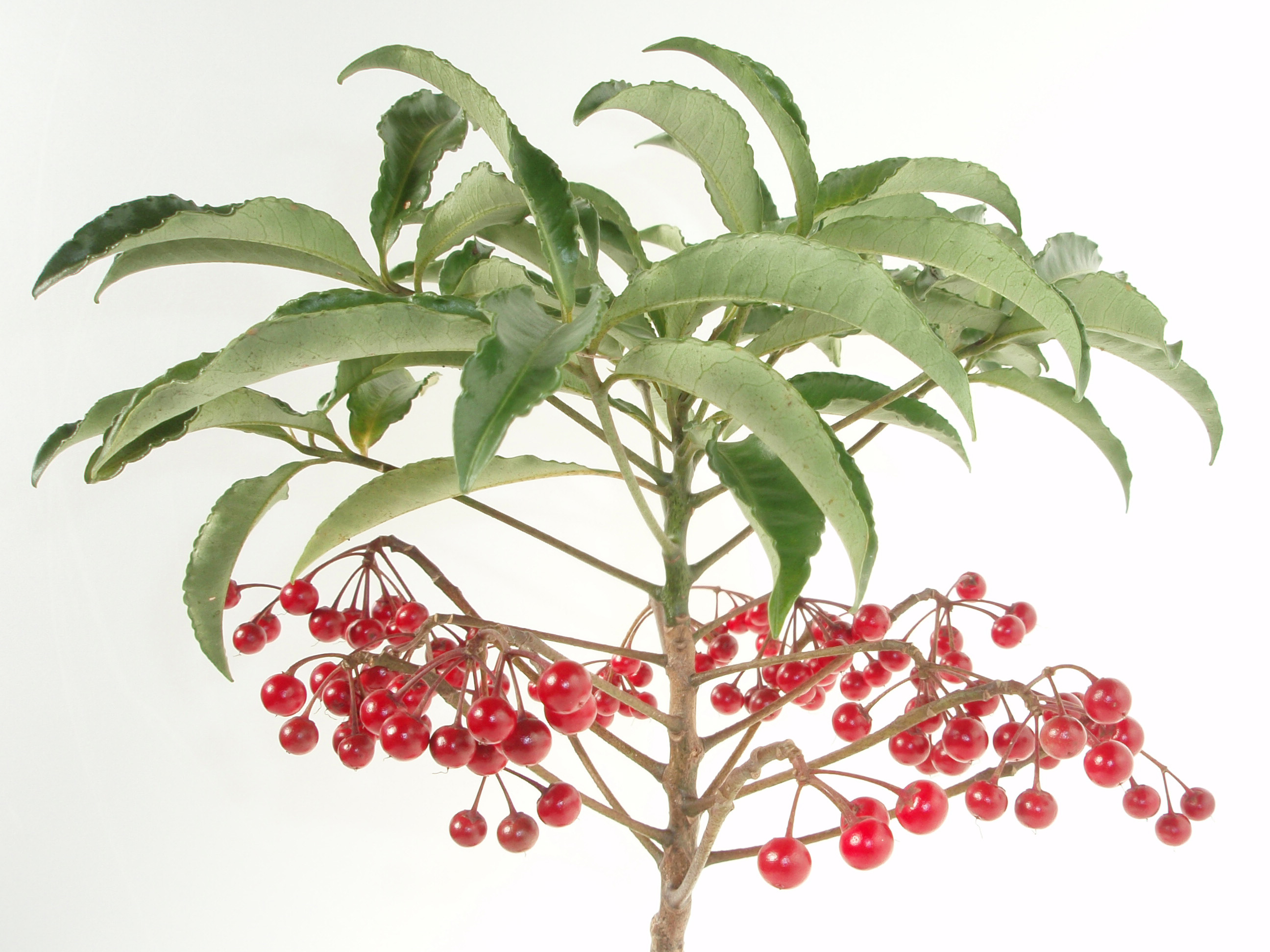 Ardisia crenata in Japan.